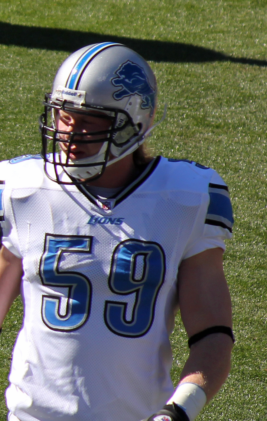 Bobby Carpenter, a player on the National Football League.